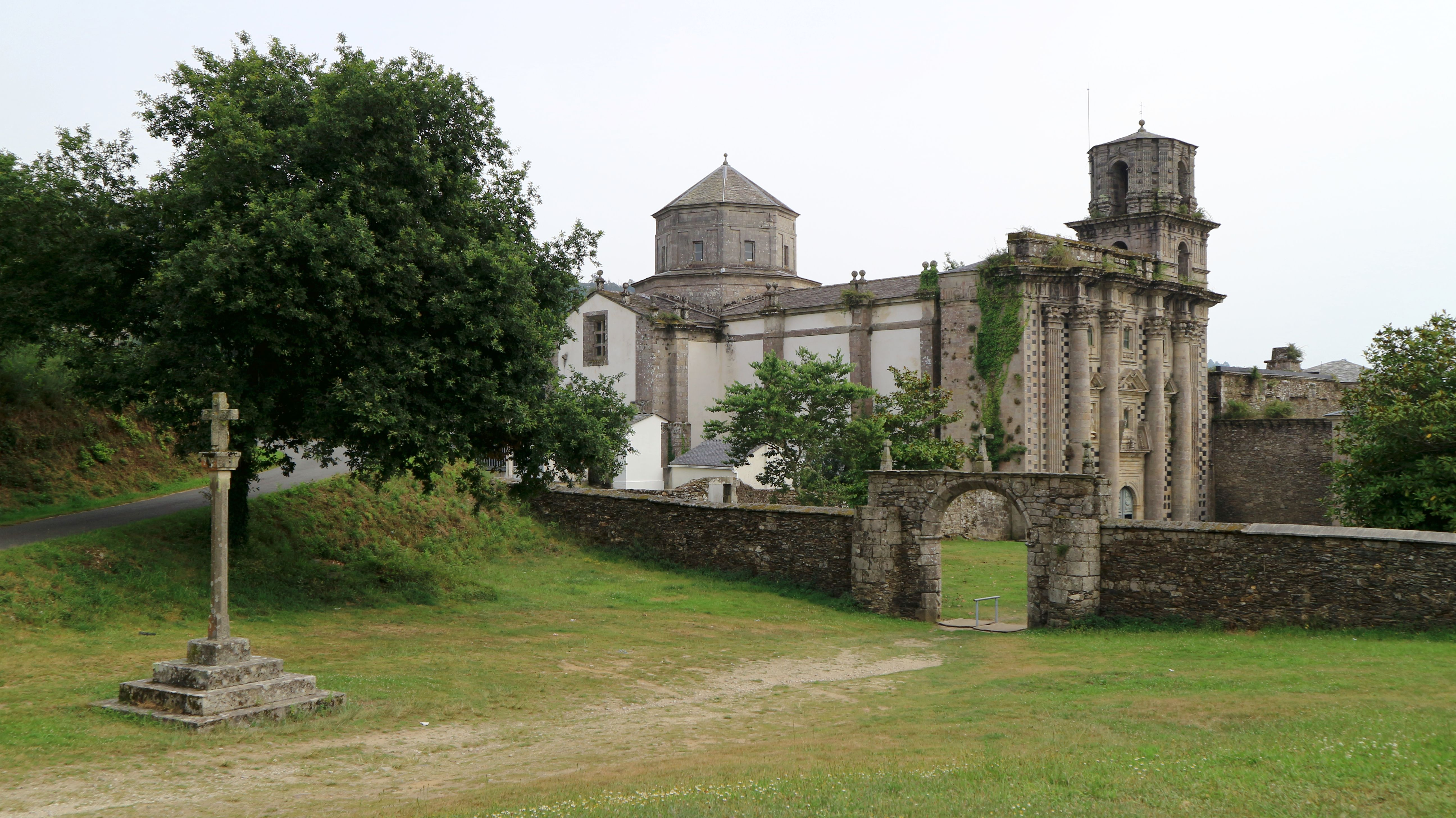 Monfero Abbey in San Fiz de Monfero (A Coruña, Galicia).